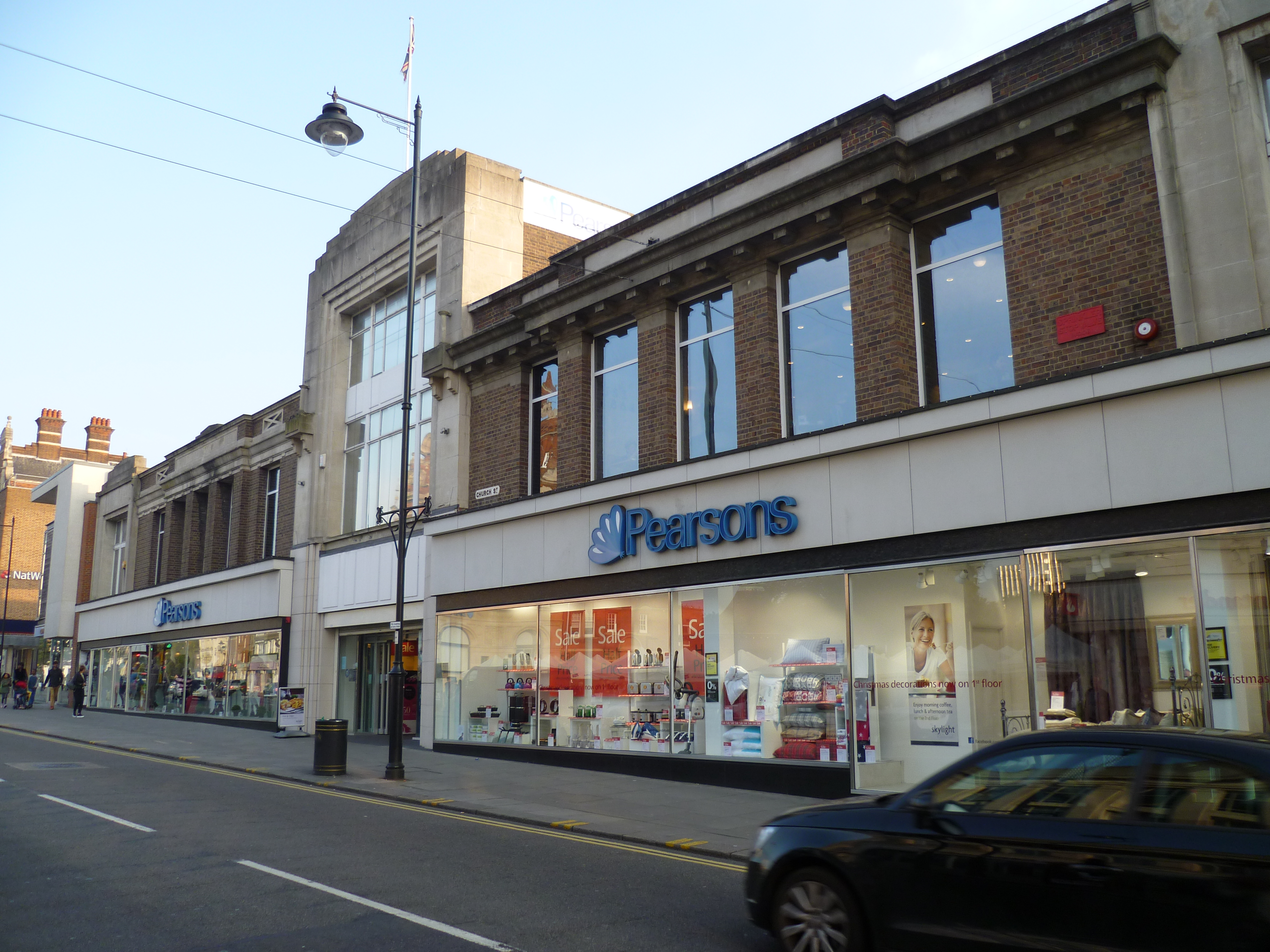 Enfield